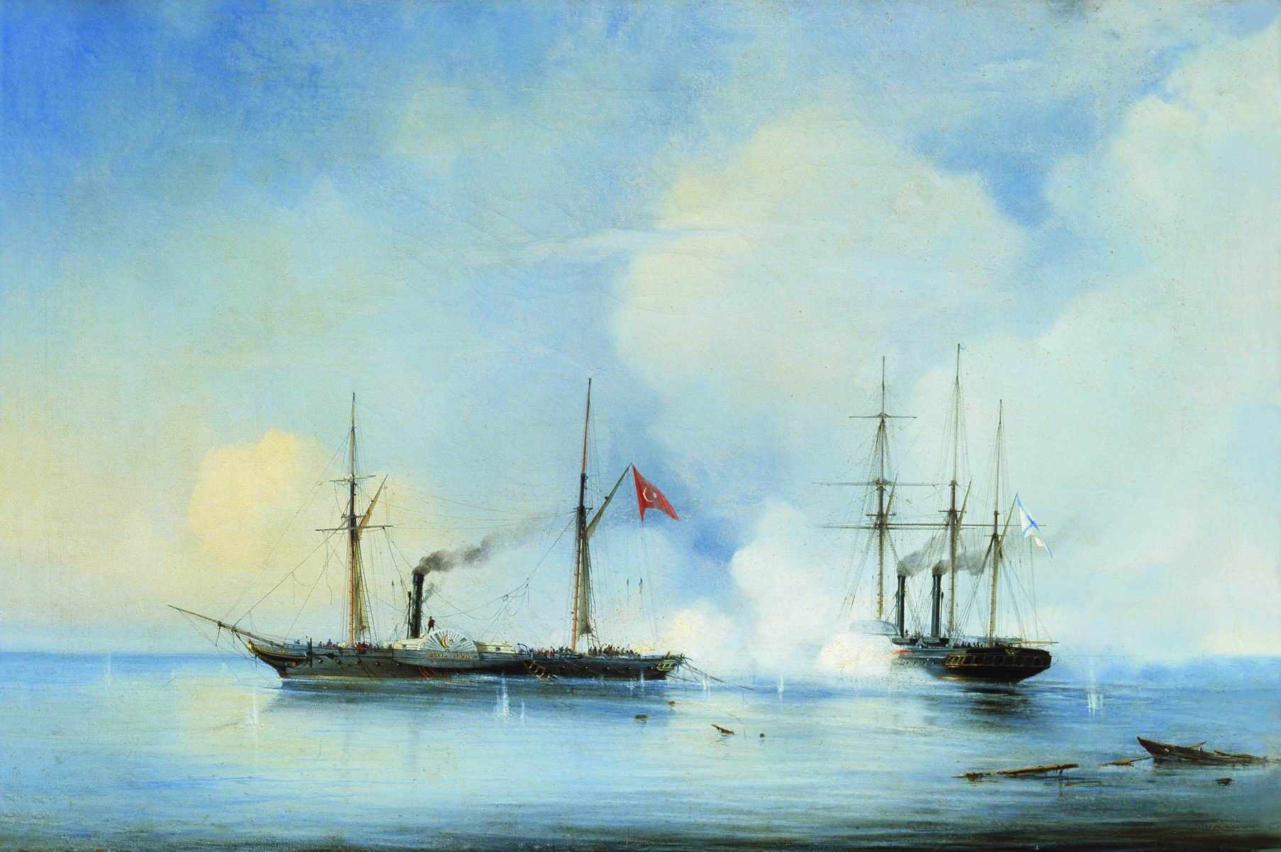 Action between Russian steam frigate Vladimir and Ottoman-Egyptian steamer Pervaz-i Bahri of November 5, 1853 — first in the history action between steam ships.label QS:Len,"Action between Russian steam frigate Vladimir and Ottoman-Egyptian steamer Pervaz-i Bahri of November 5, 1853 — first in the history action between steam ships."label QS:Lru,"Бой пароходо-фрегата "Владимир" с турецким паровым фрегатом (çarklı vapur) "Перваз-и Бахри" 5 ноября 1853 года — первый в истории бой паровых судов. Художник А. П. Боголюбов. 1850-е гг. Холст, масло"